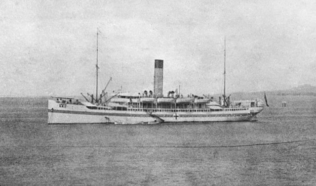 Hospital ship Grantala off the Fijian capital Suva, November 1914.